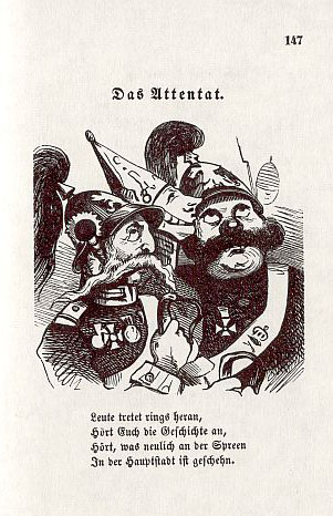 "Leute tretet rings heran": Bänkelsang relating the attempted assasination of Frederick William IV of Prussia by Heinrich Ludwig Tschech. From: Musenklänge aus Deutschlands Leierkasten. Mit seinen Holzschnitten. Leipzig: Georg Wigand's [1849]. Faksimiledruck, neu hrsg. Adolf Thimme [1936]. Nachdruck Ralph Suchier 1977, S. 147–151. DVA: V 1/14949